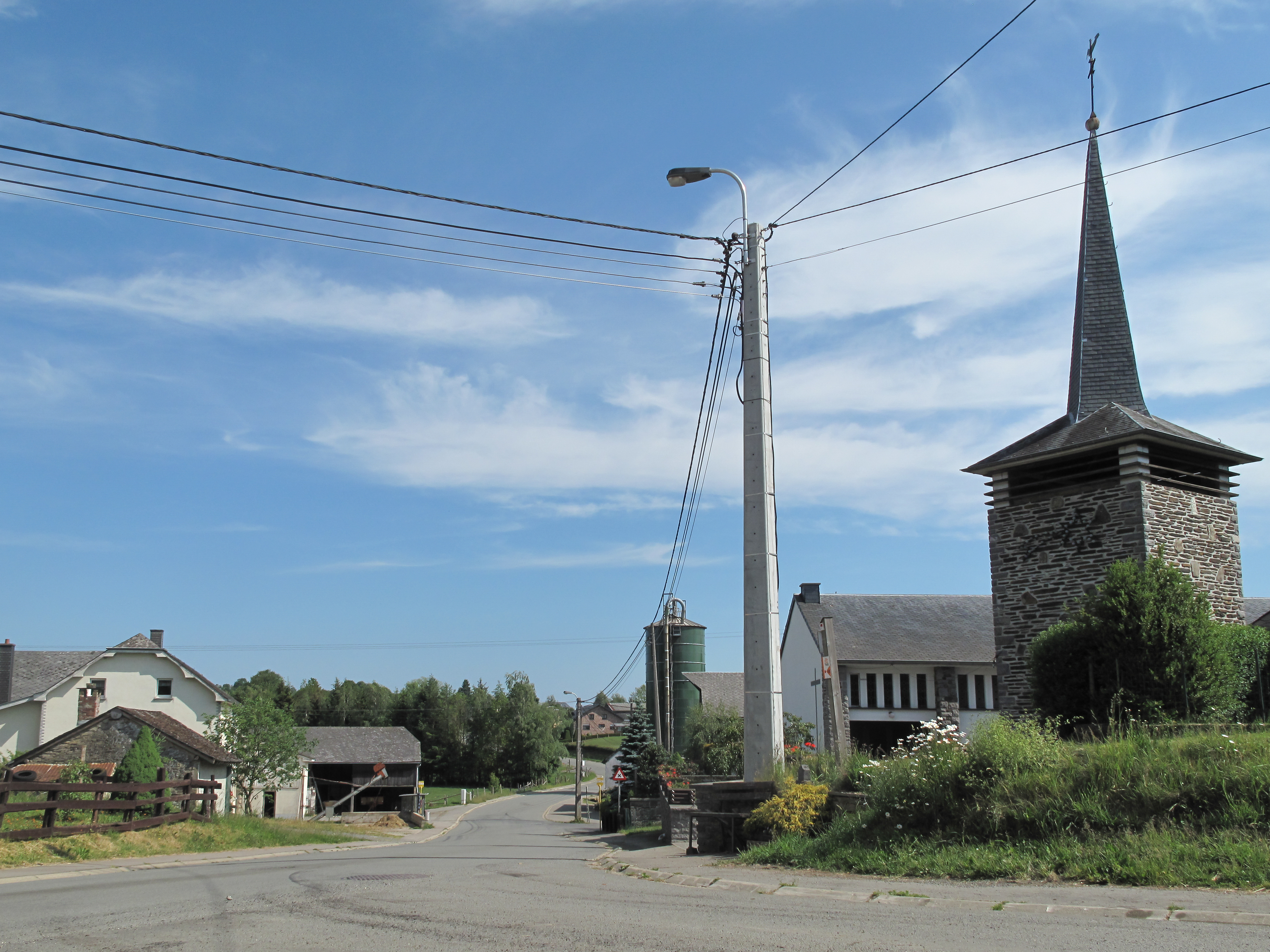 Braunlauf, churchtower in the street